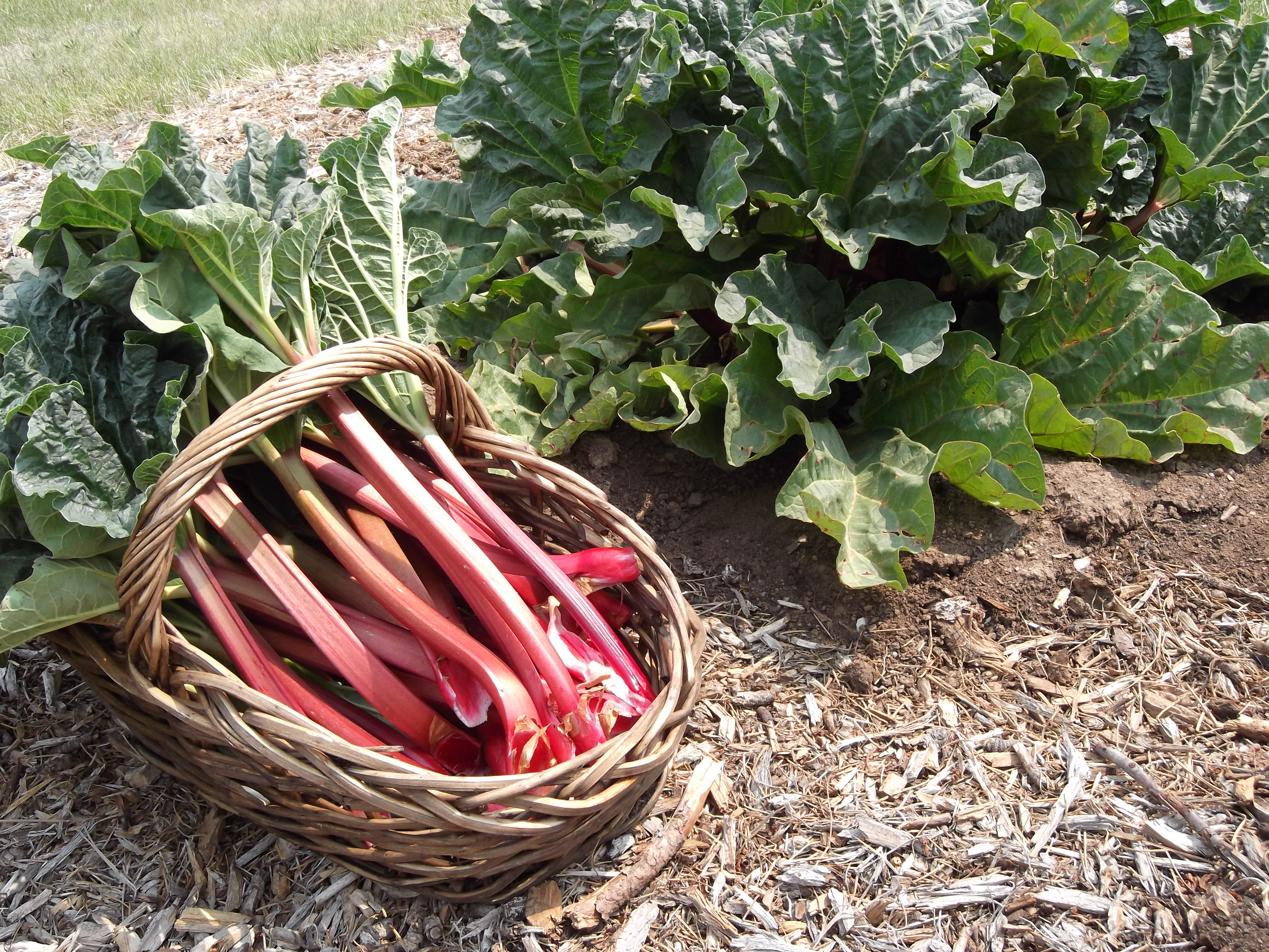 Freshly harvested Crimson Red rhubarb, High Altitude Rhubarb--Organic Farm & Nursery, Black Forest, Colorado